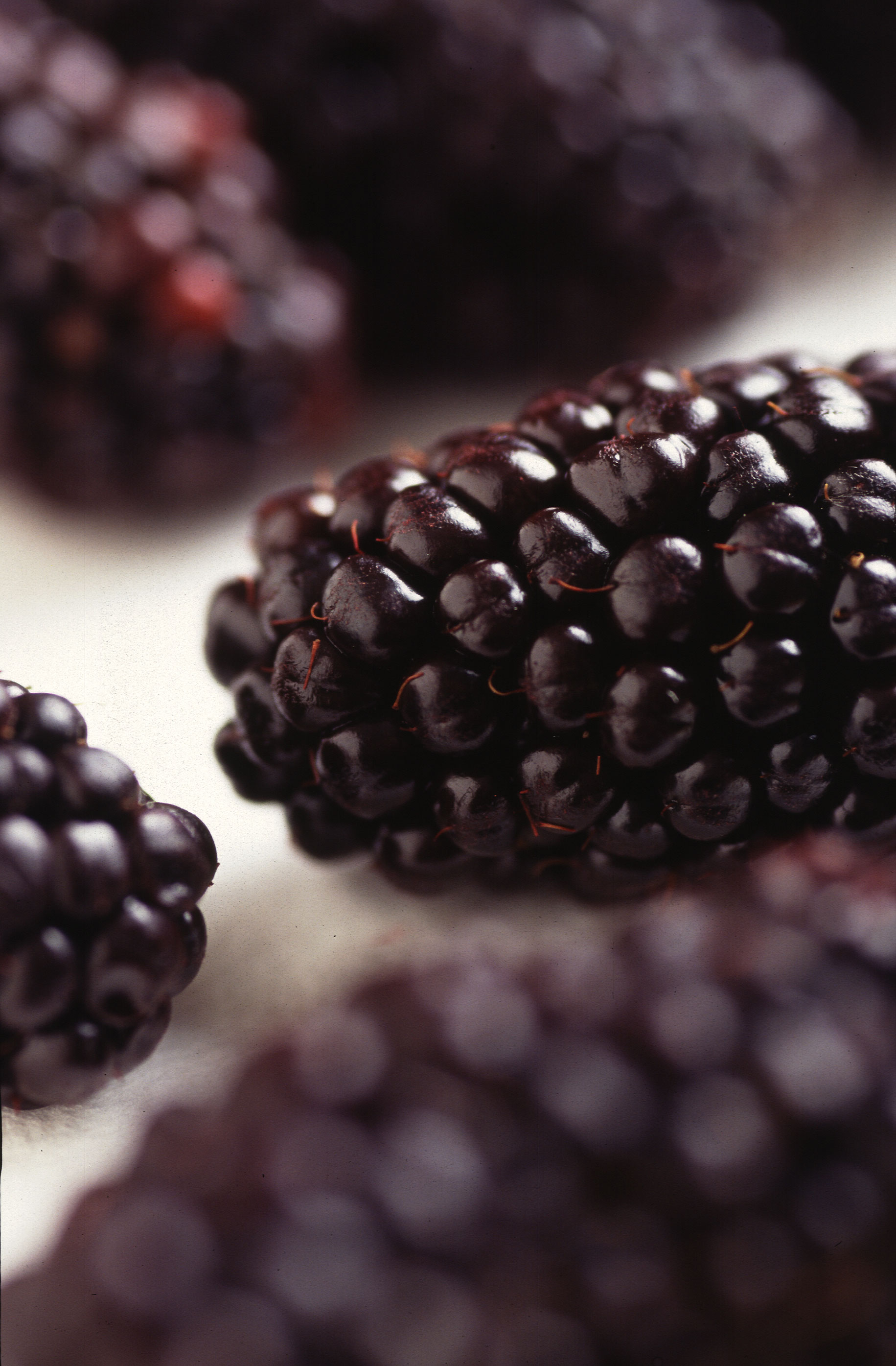 Black Butte is a new blackberry release by ARS scientists in Corvallis, Oregon. Fruit averages one inch in diameter, and two inches long. It weighs almost twice as much as other varieties of fresh blackberries.